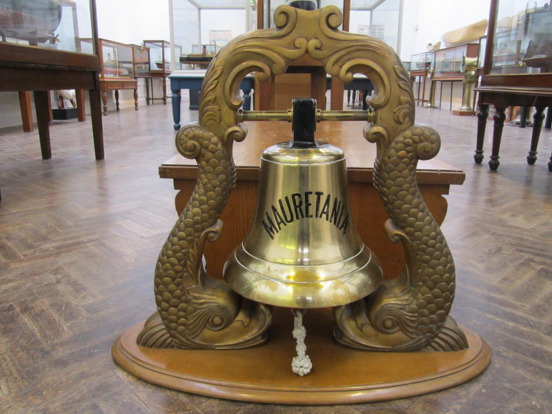 Ship's bell from the RMS Mauretania at the Williamson Art Gallery and Museum, Birkenhead, Merseyside, England.